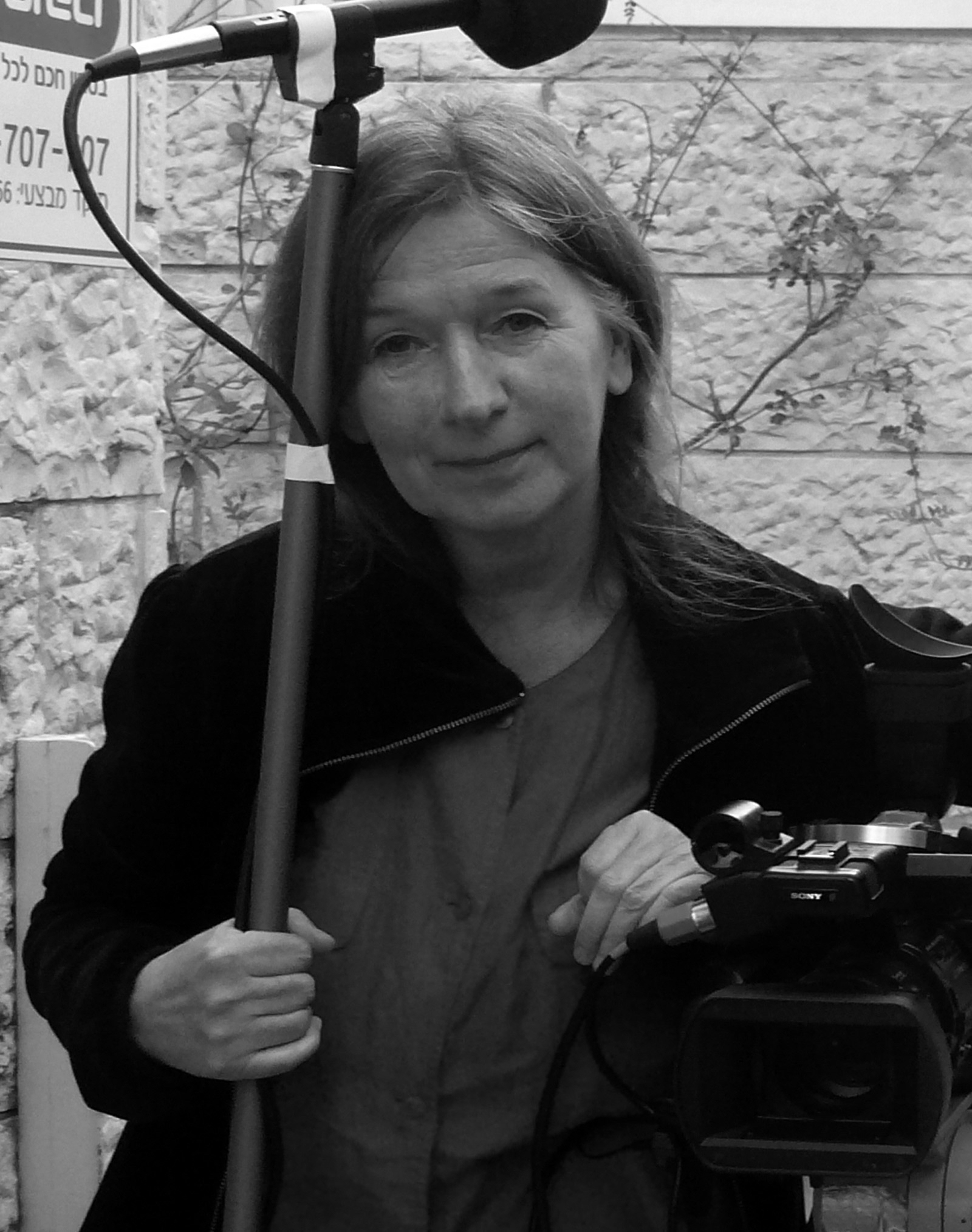 Joanna Helander, Polish-Swedish filmmaker and photographer.